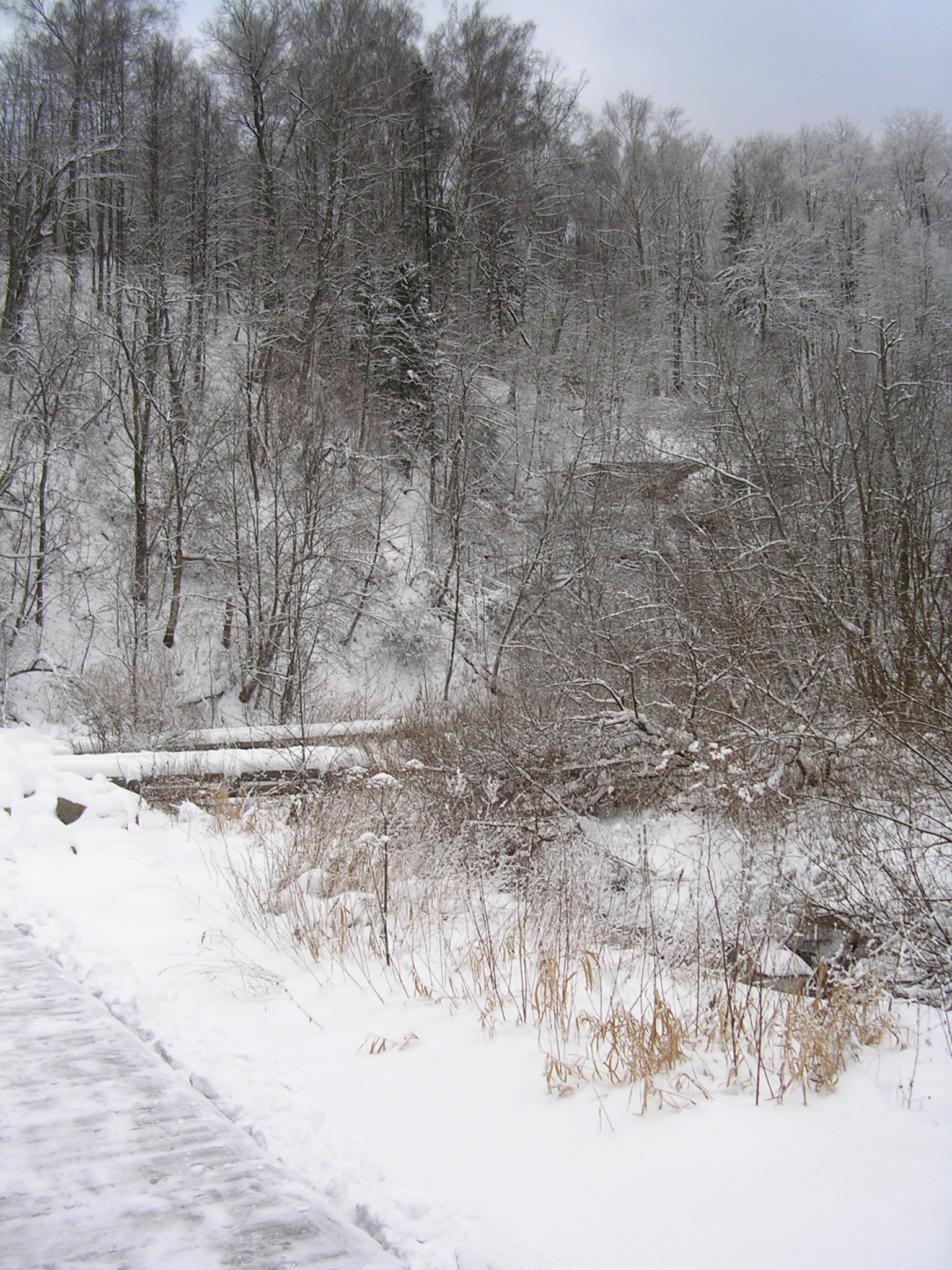 November Gremyachy Waterfall